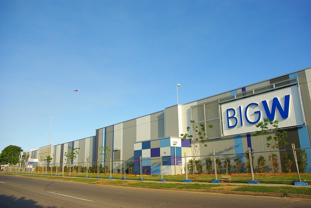 Construction of the expansion in September 2009.